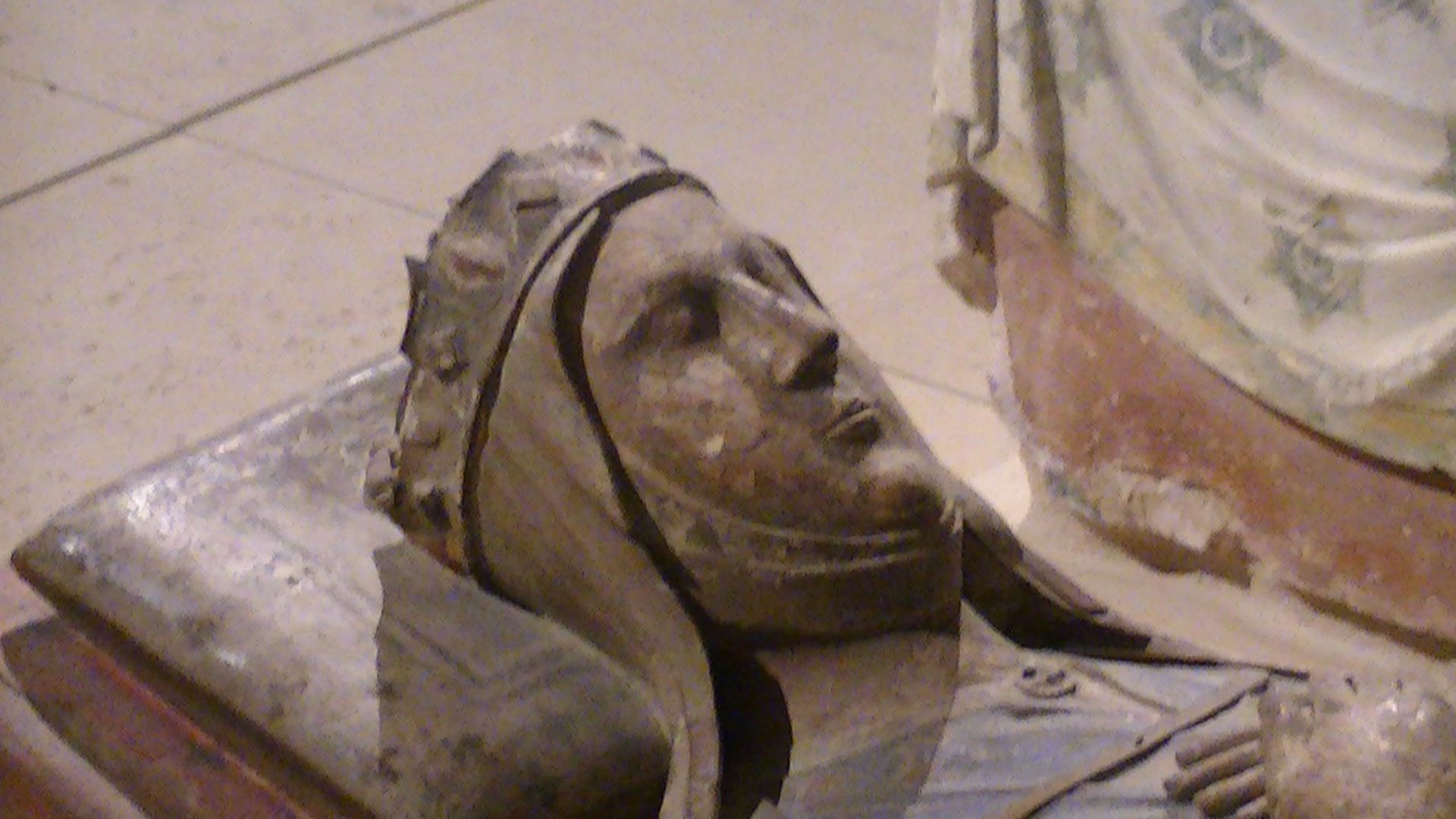 Effigy of Isabella of Angouleme in the church of Fontevraud Abbey